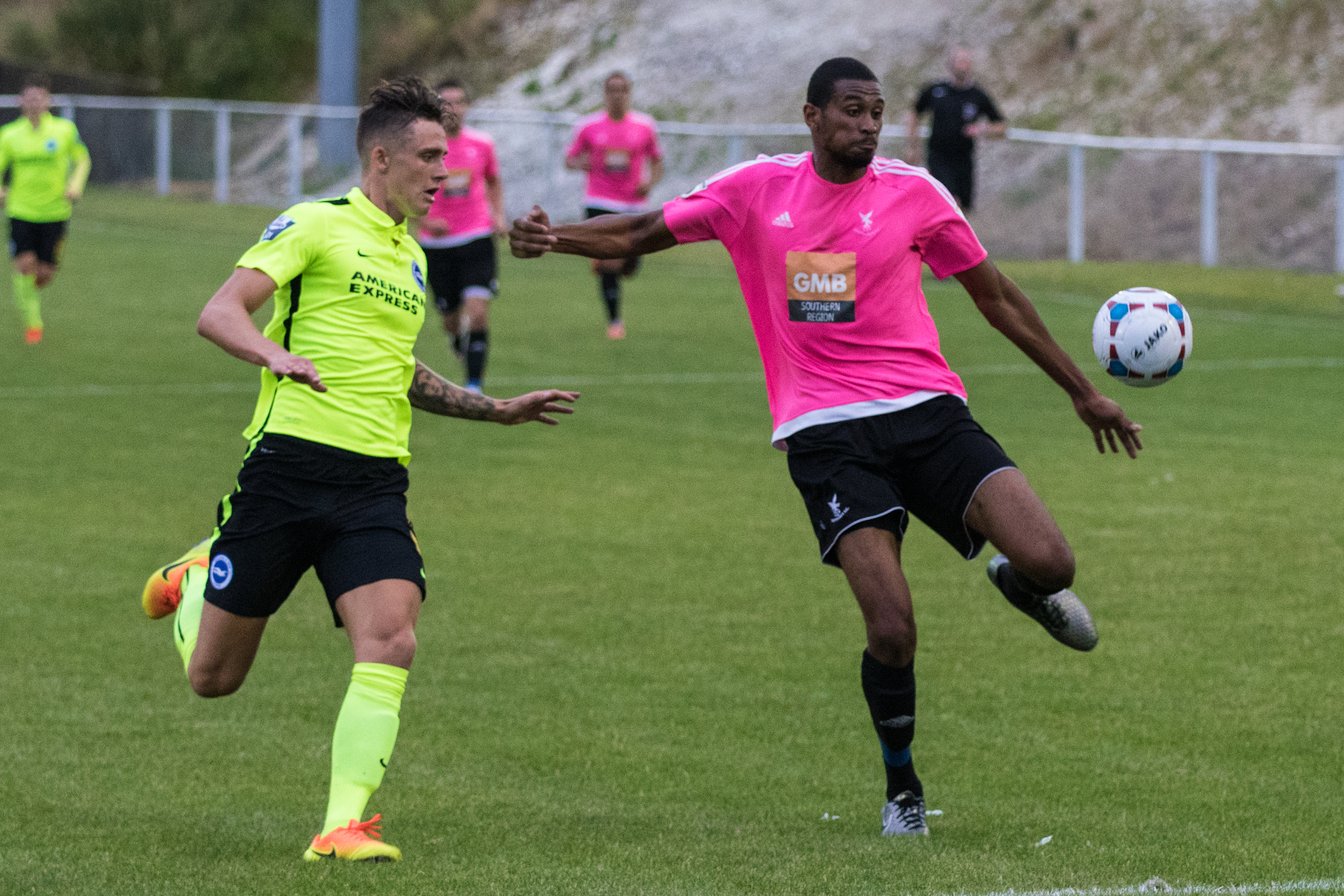 Danny Mills playing for Whitehawk v BHA U23 2016